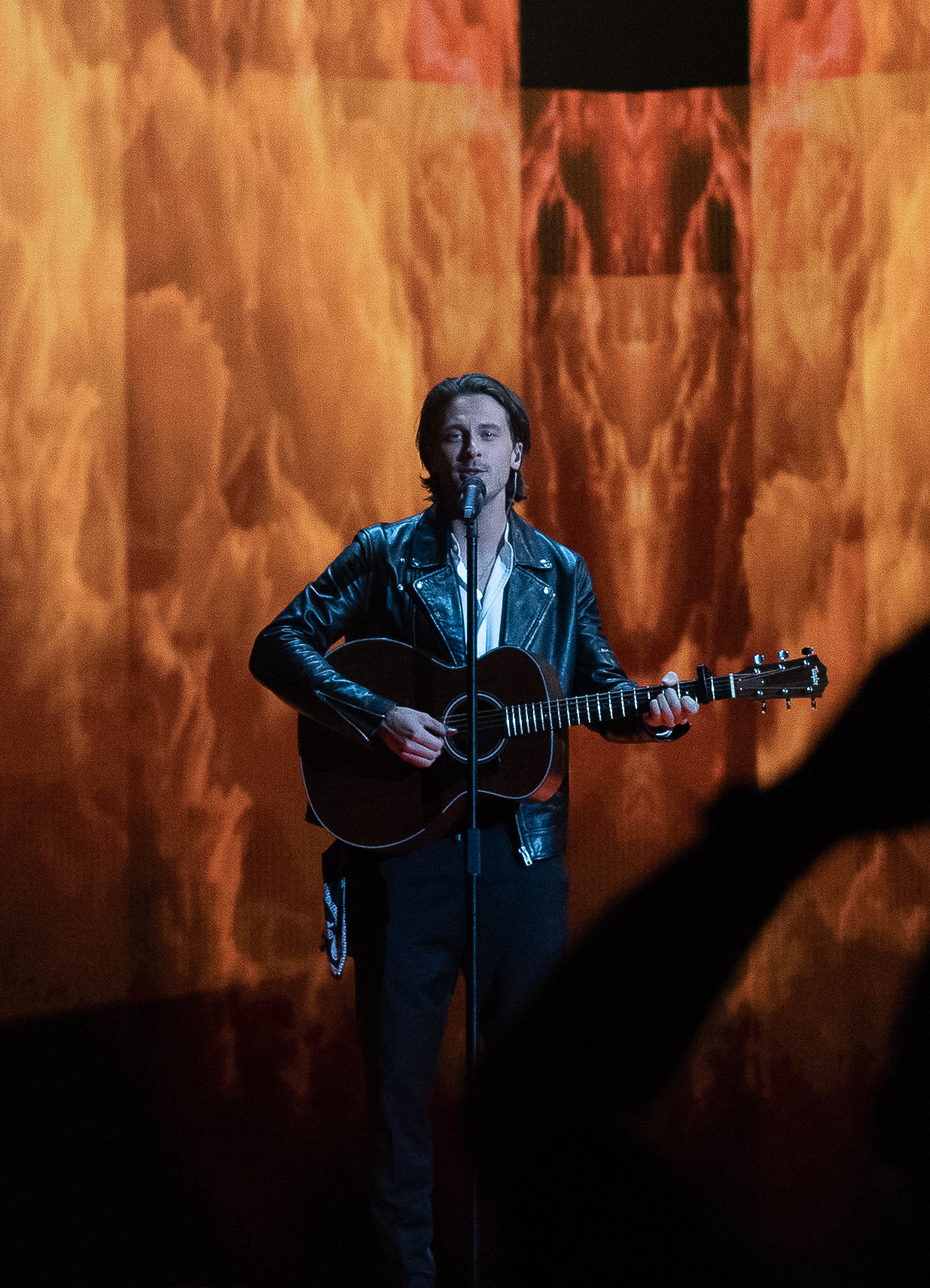 At the 2019 Eurovision Song Contest Semi-final 1 dress rehearsal